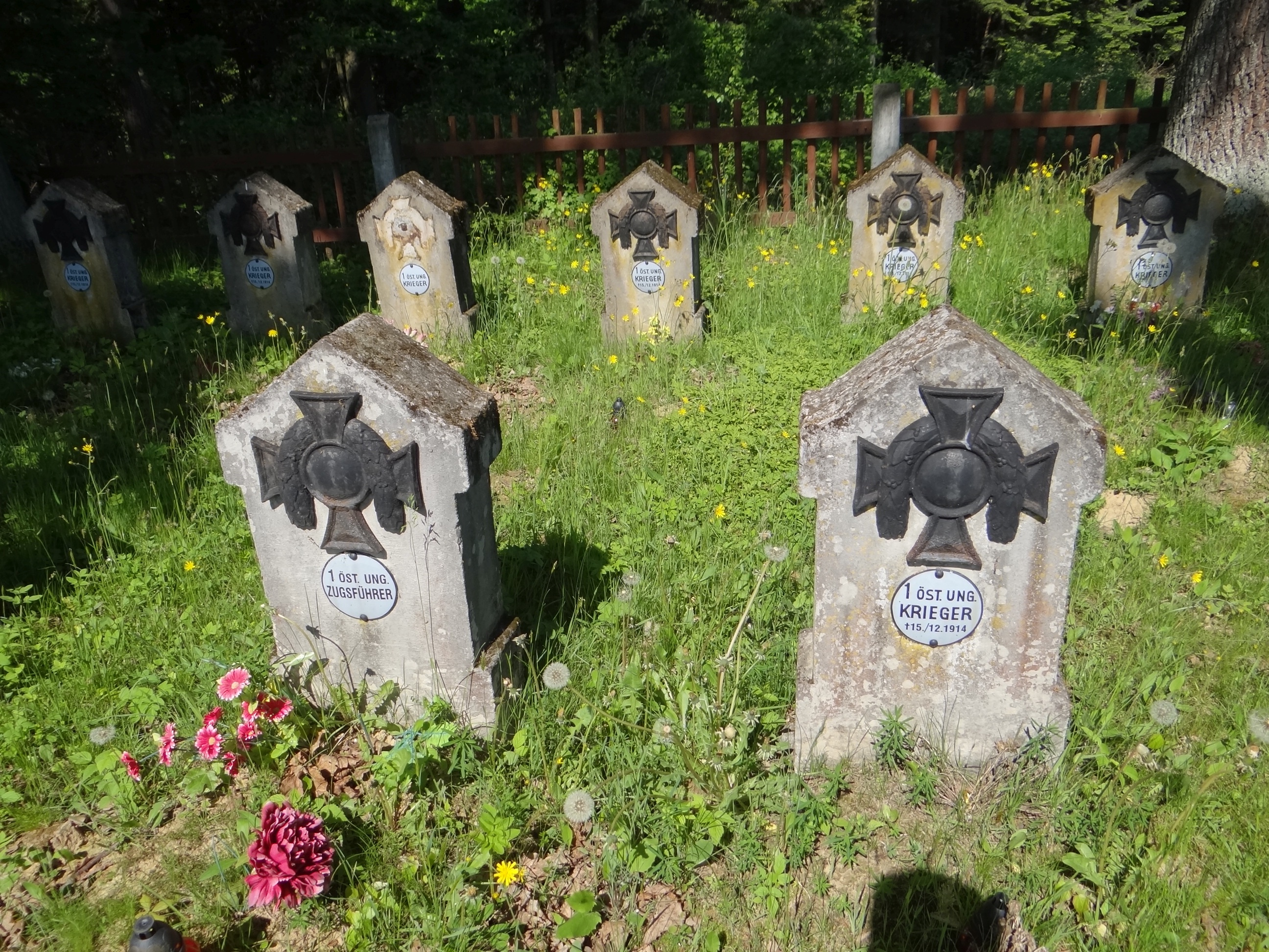 World War I Cemetery nr 184 in Brzozowa